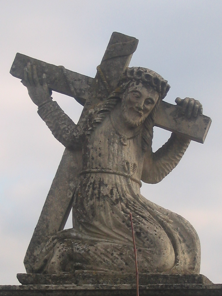 Grave monument at the old cemetery in Berezhany, western Ukraine